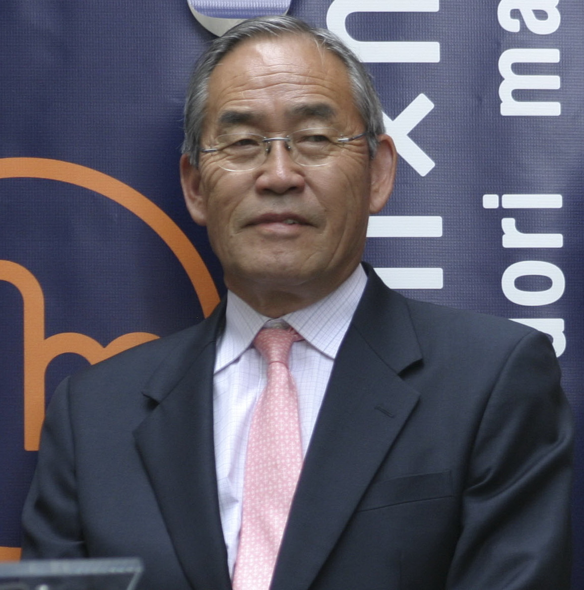 Motoatsu Sakurai, during the Madison Avenue BID Uchimizu Ceremony. © Rubenstein, photographer Martyna Borkowski